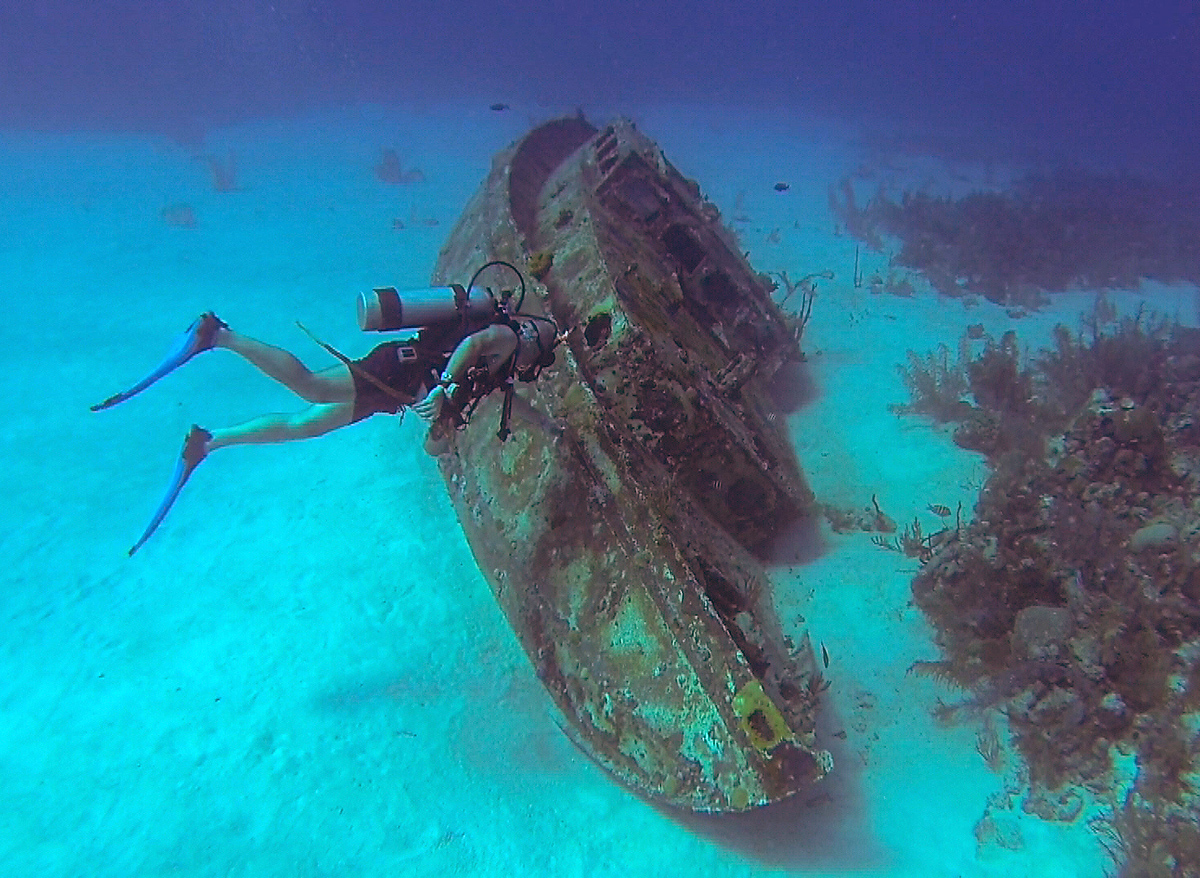 Wreck in the Caribbean Sea